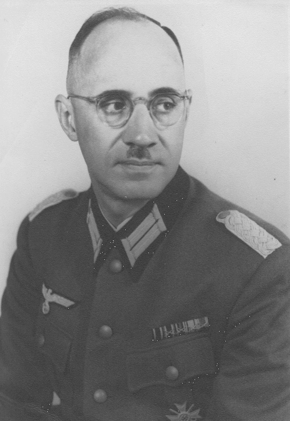 Photo of Karl Plagge taken in December of 1943 while he was home on leave from his post in Vilna Poland